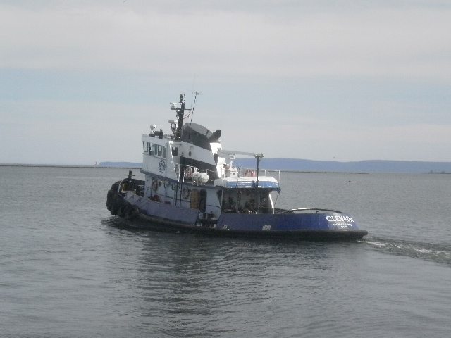 tug Glenada leaving the dock to go to work.